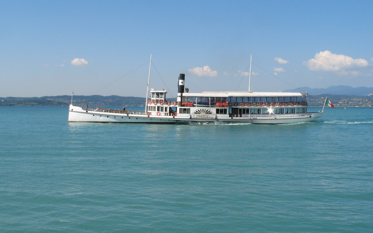 Diesel-electric paddle vessel Giuseppe Zanardelli at Lake Garda, Italy